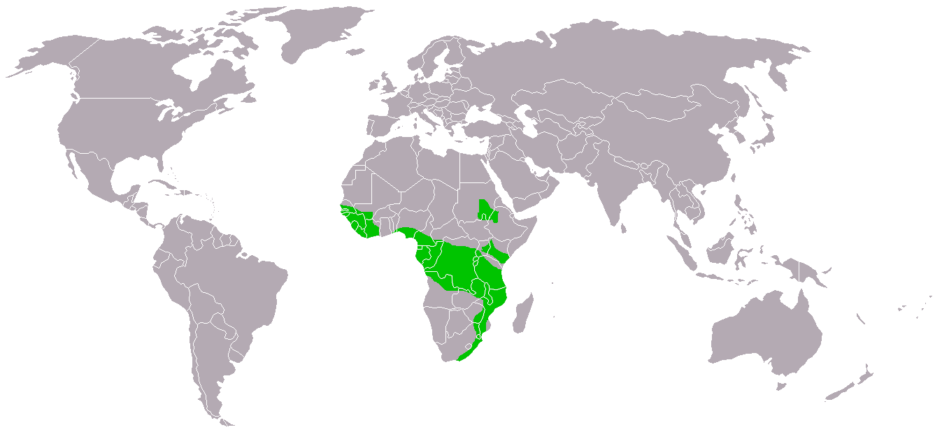 Kronenadler World Stephanoaetus coronatus Quelle: selbst gemacht